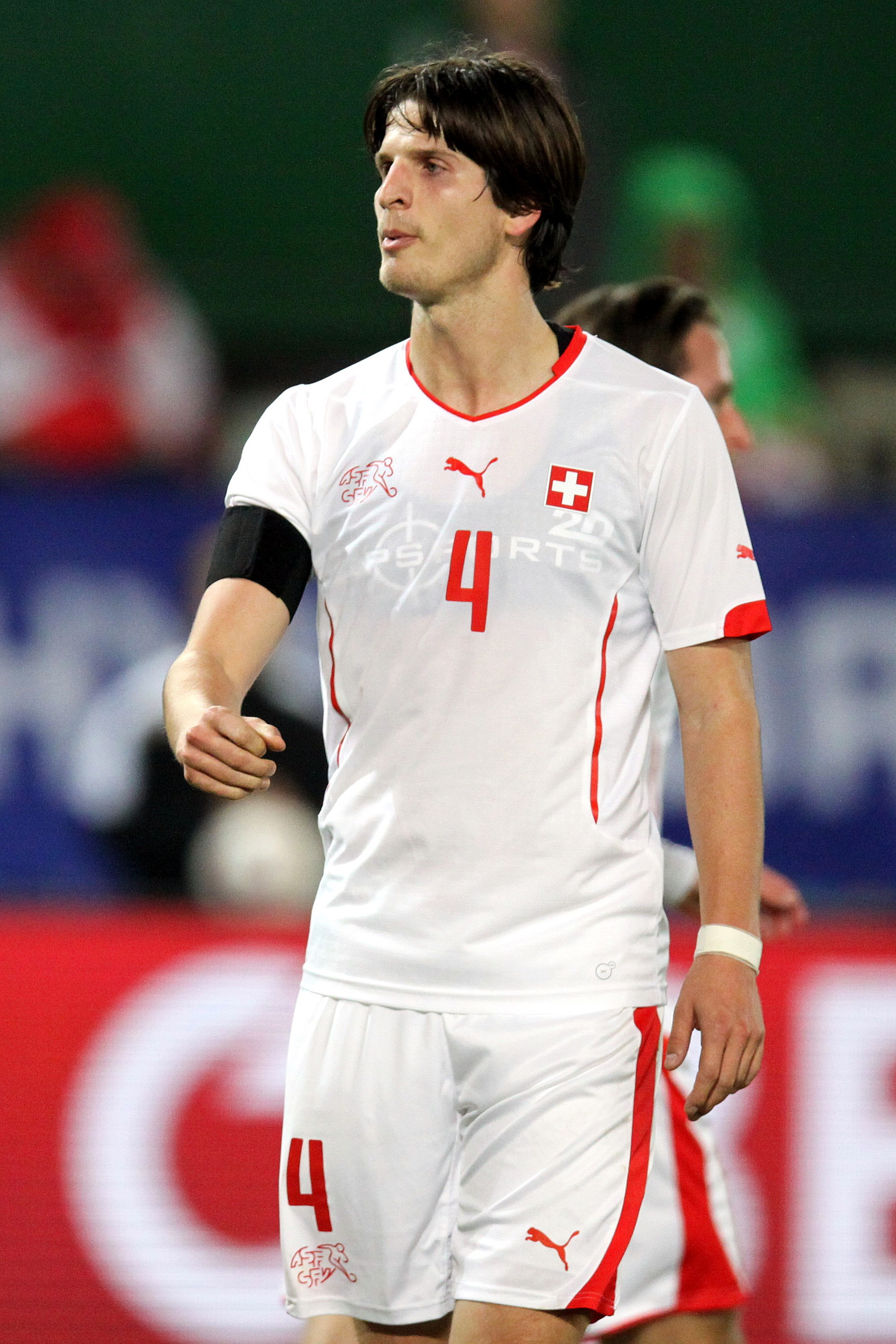 Friendly match – Austria (red shirts) vs. Switzerland (white shirts) 1-2 (1-2) – 2015-11-17 in Vienna, Ernst-Happel-Stadion – The photo shows Timm Klose.